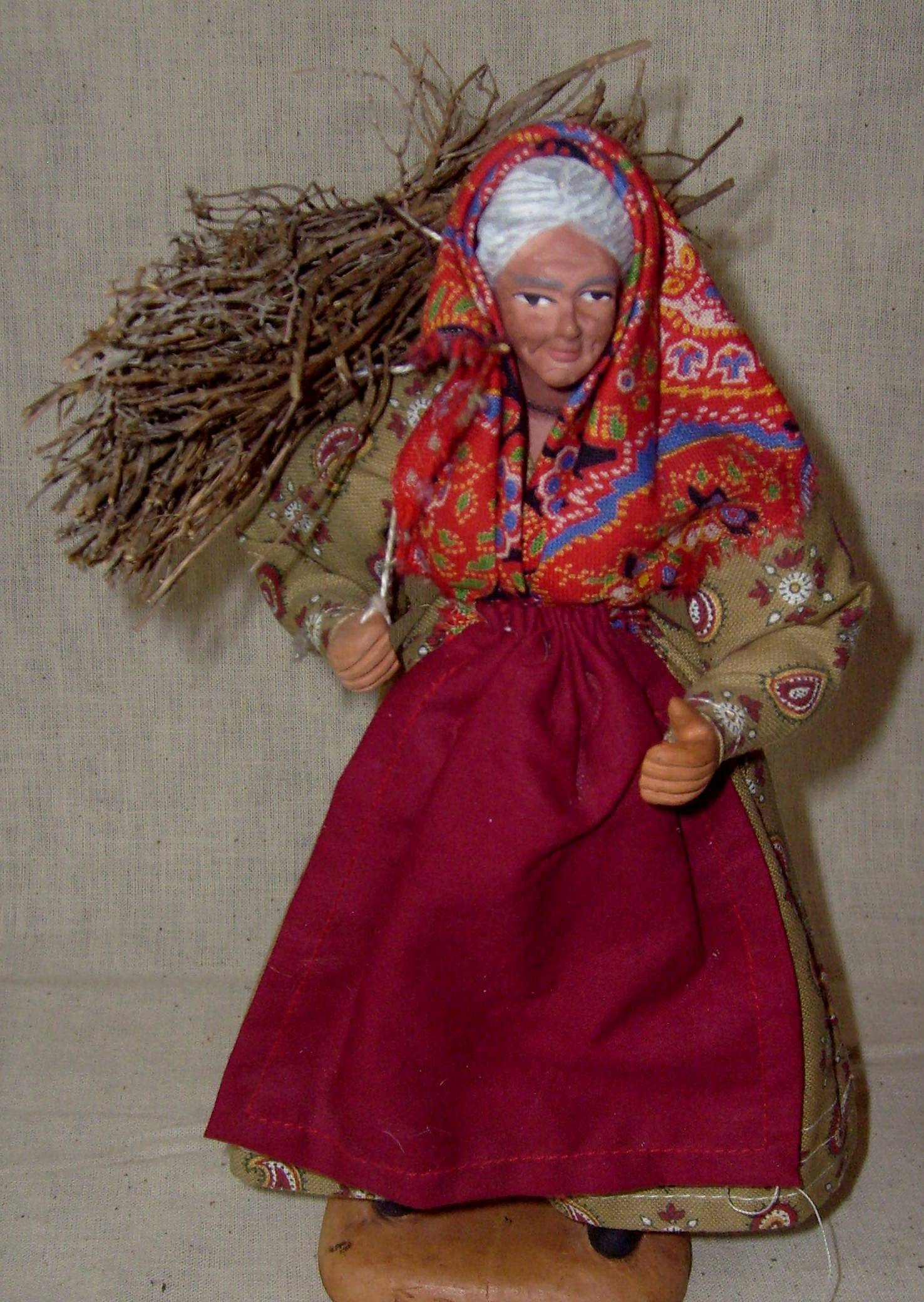 Traditional Kitchen Witch Doll or Hearth Doll for home protection. From Mal Corvus Witchcraft & Folklore artefact private collection owned by Malcolm Lidbury (aka Pink Pasty)